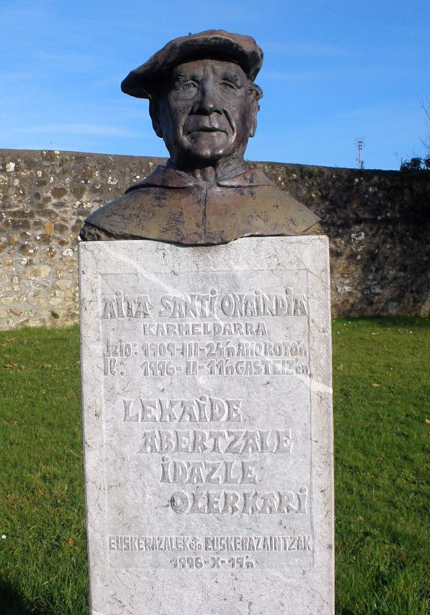 Monumento al sacerdote carmelitano aita Santi Onaindia, en las inmediaciones del Santuario de la Virgen del Carmen, en Amorebieta